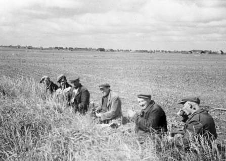 Farmworkers taking lunch - NIeuw-Scheemda NL 1950s